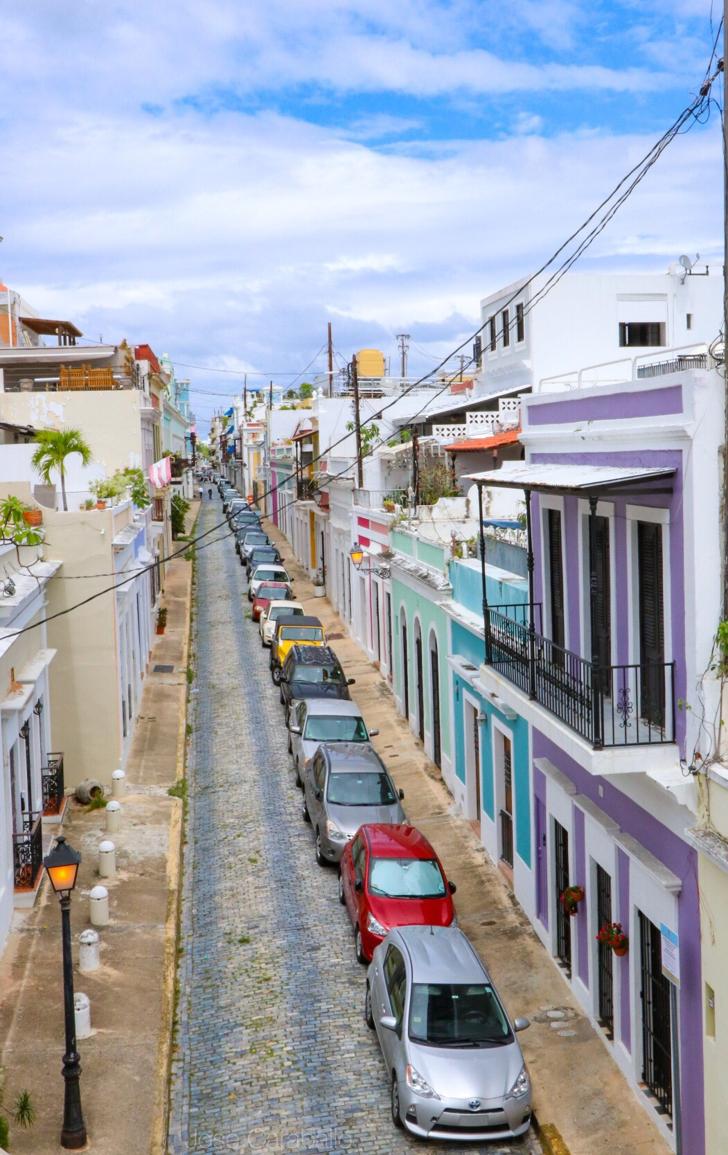 Typical contemporaneous Old San Juan street.